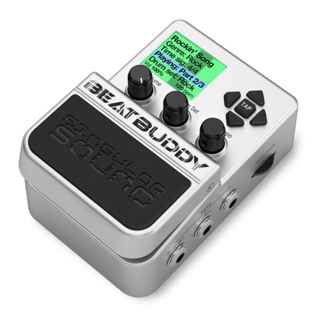 BeatBuddy guitar pedal